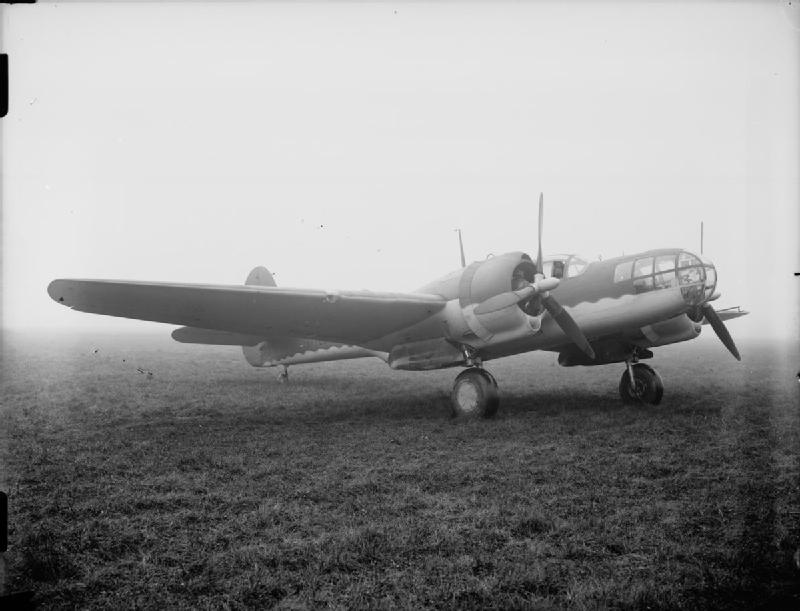 American Aircraft in Royal Air Force Service, 1939-1945- Martin Model 167 Maryland. Maryland Mark I, AR703, on the ground at No. 37 Maintenance Unit, Burtonwood, Lancashire, November 1941. One of the original batch of Martin 167Fs ordered by the French government and diverted to the RAF after the surrender in 1940, AR703 undertook handling trials at the Aeroplane and Armament Experimental Establishment, Boscombe Down, Wiltshire, before being despatched to the Middle East for operational service.